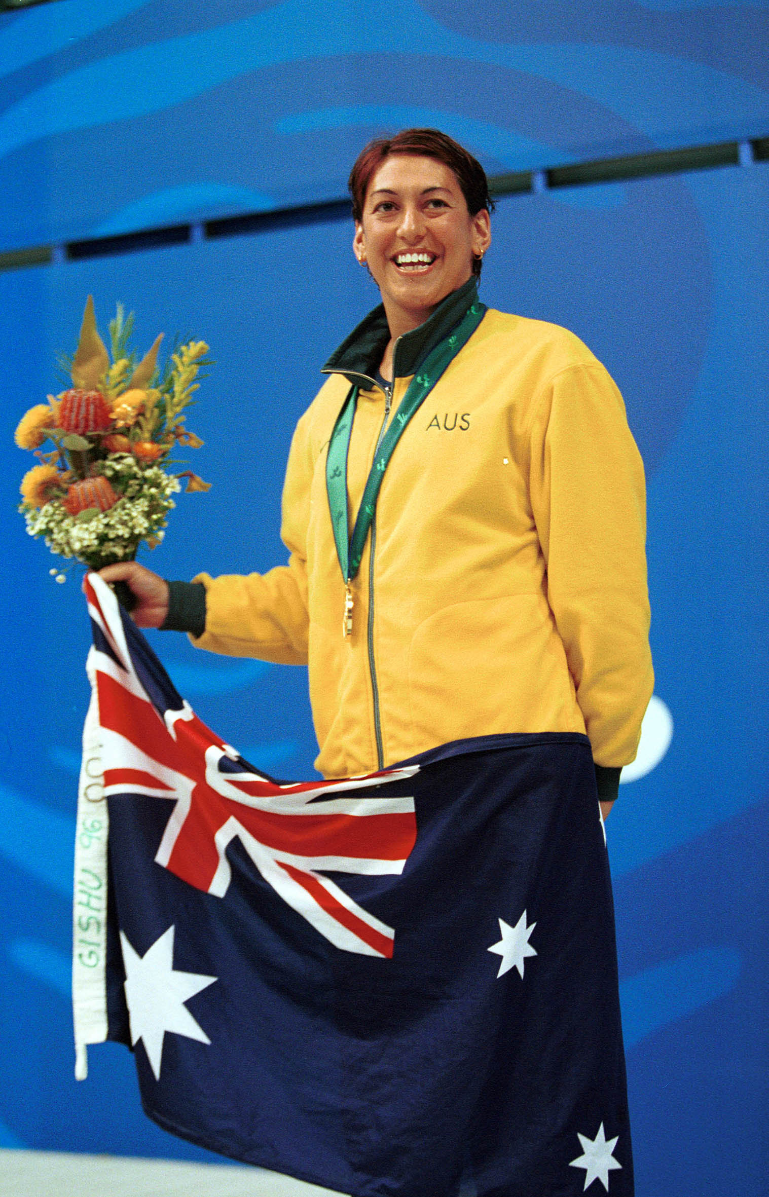 Australian swimmer Priya Cooper on the gold medal podium for her win in the 400 m freestyle S8 on day 4 of the 2000 Sydney Paralympic Games. Cooper is shown smiling with the Australian flag.